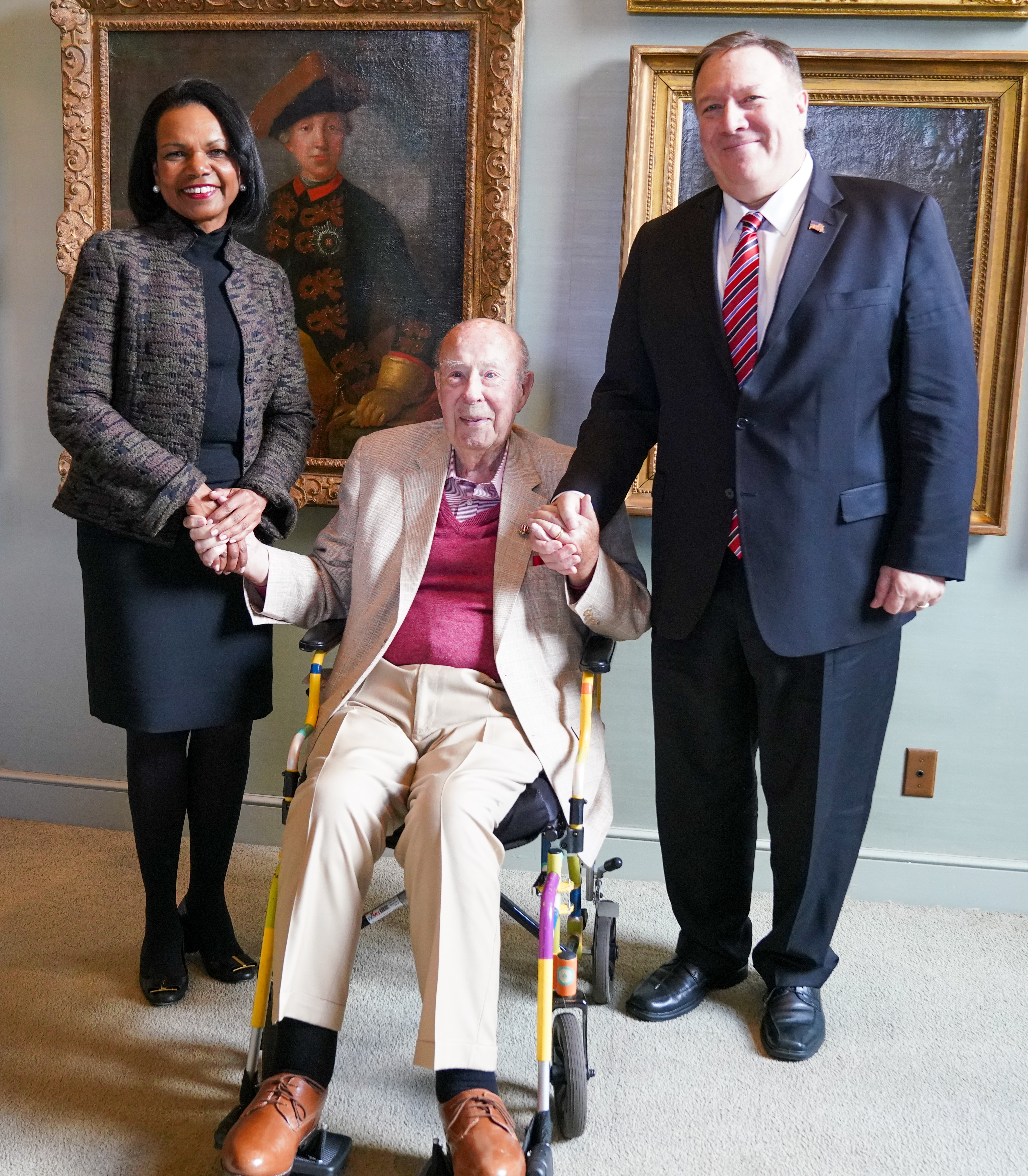 Secretary of State Michael R. Pompeo attends a private lunch hosted by former Secretaries of State Condoleezza Rice and George Shultz in Palo Alto, California on January 13, 2020. [State Department photo by Ron Przysucha/ Public Domain]